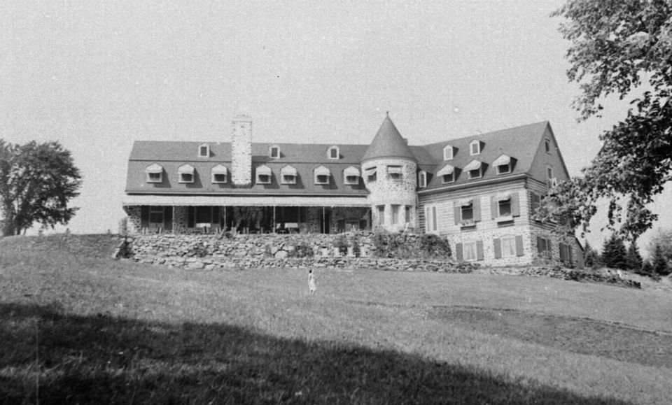 We see Le Chantecler in Sainte-Adèle in the Laurentians.